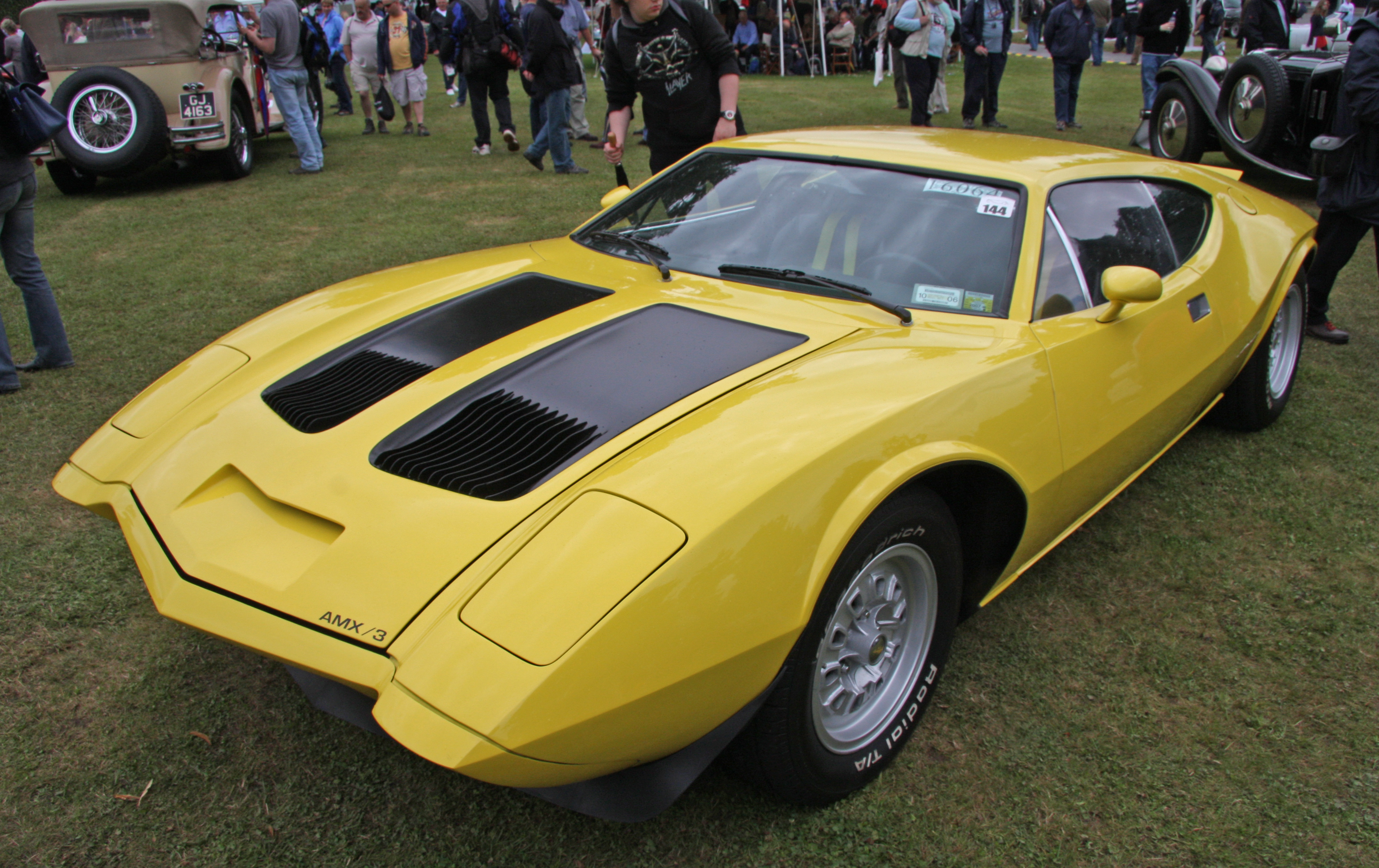 The AMC AMX/3 concept